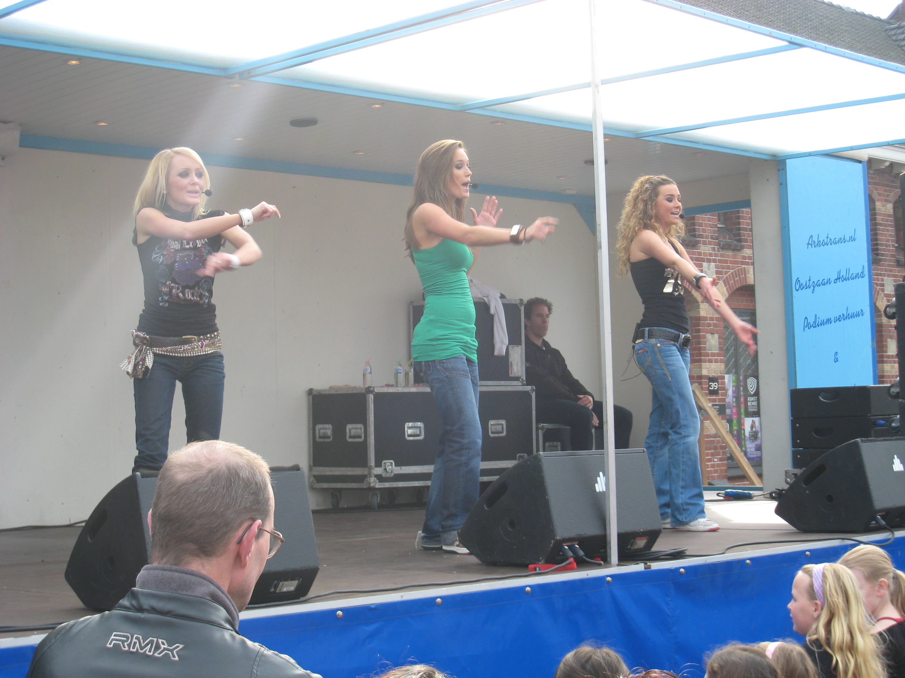 Dutch girlgroup Djumbo